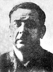 Andriy Nikovsky Ukr. Андрій Ніковський (1885-1942) Ukrainian philologist, journalist and politician. Minister of foreign affairs of Ukrainian People's Republic 1920-1922. Sentenced for 10 years of Gulag labor camps in Union for the Freedom of Ukraine process, show trial in the USSR (Kharkiv) from March 9 to April 19, 1930.